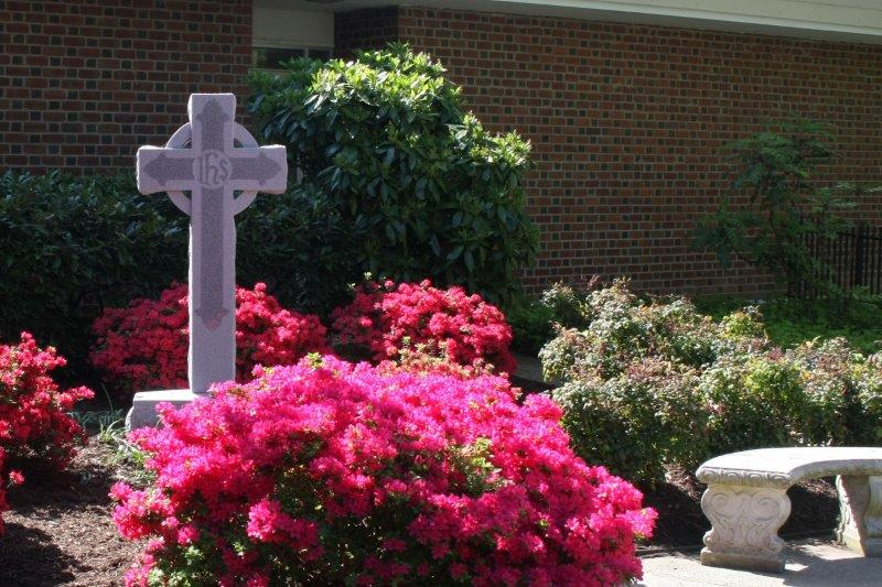 Celtic cross in memorial garden in Spring